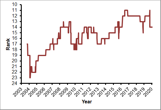 IRB World Rankings from